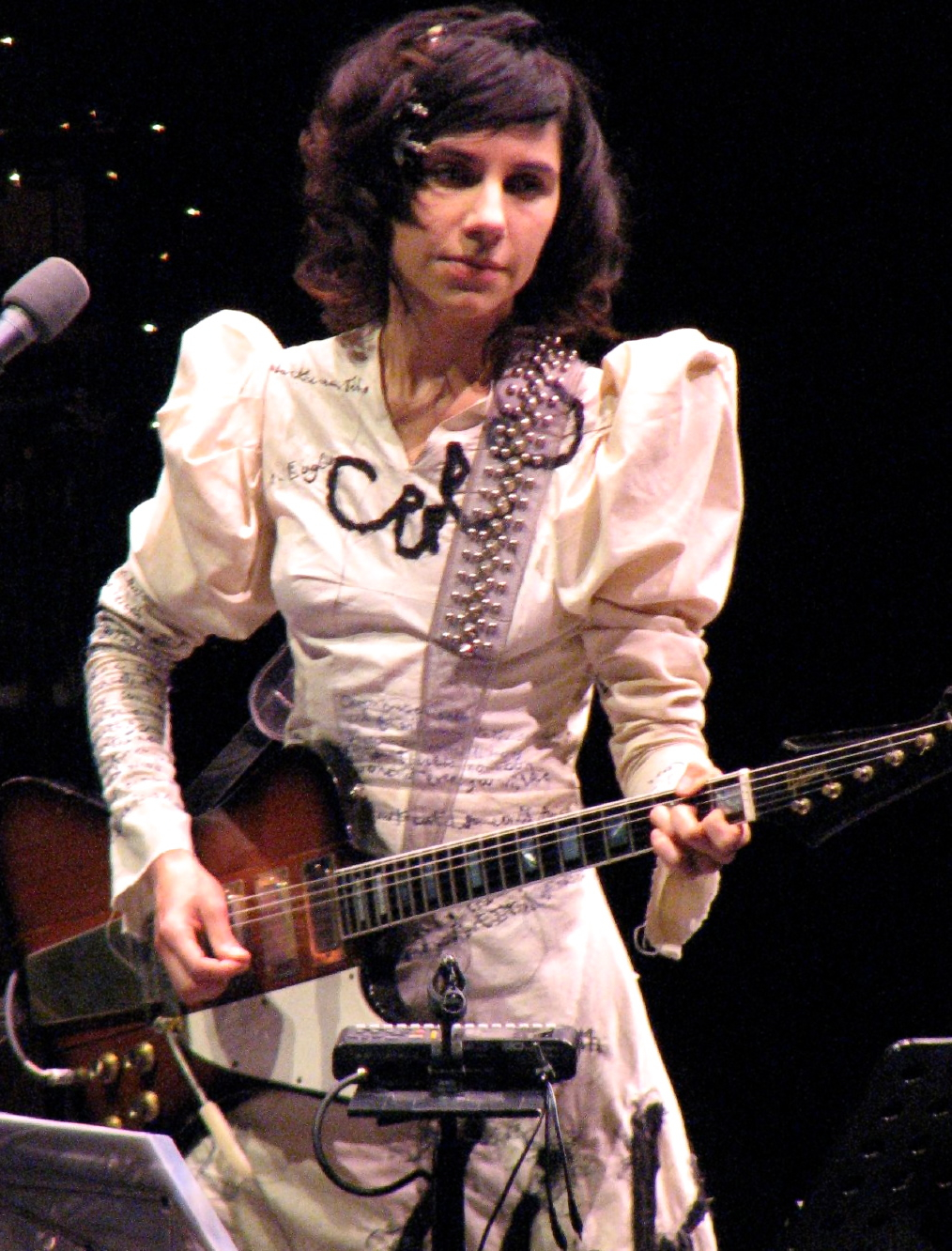 PJ Harvey at the Royal Festival Hall, London - 29.09.2007